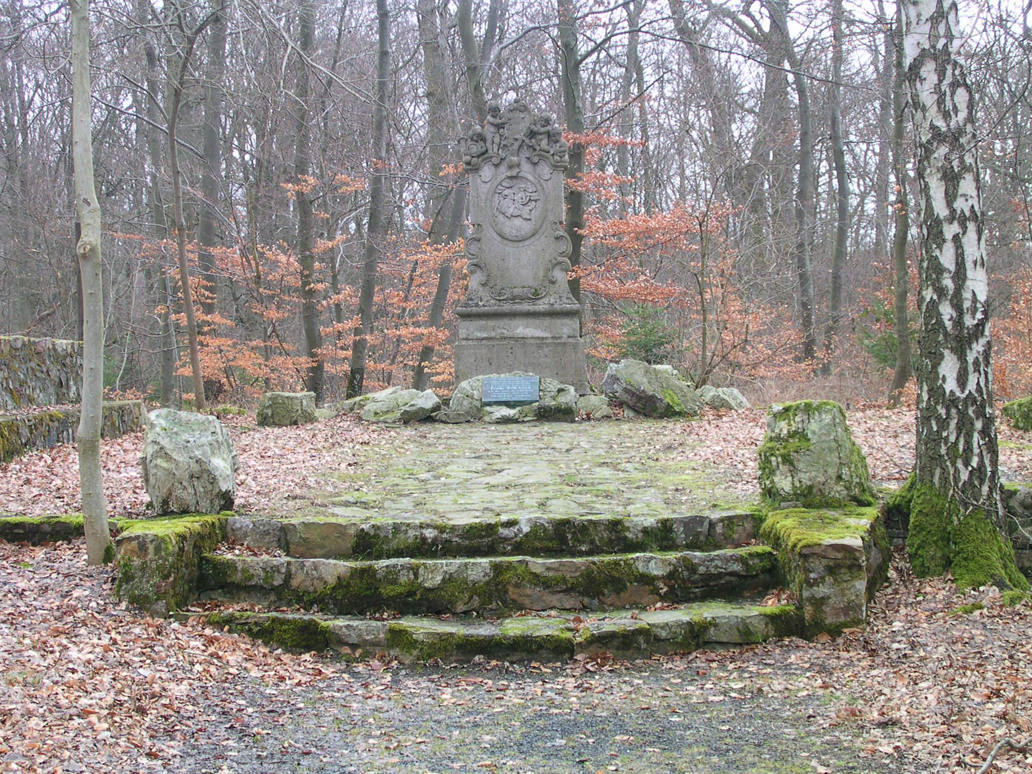 memorial for Friedrich Wilhelm Utsch